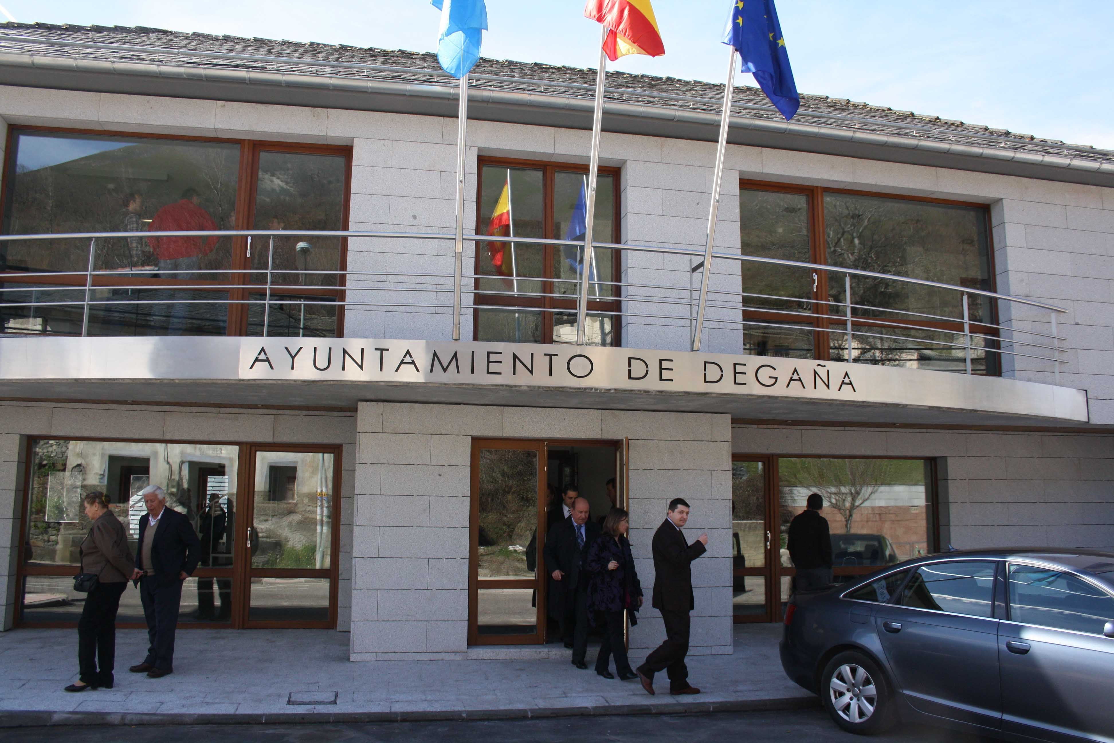 casa consistorial